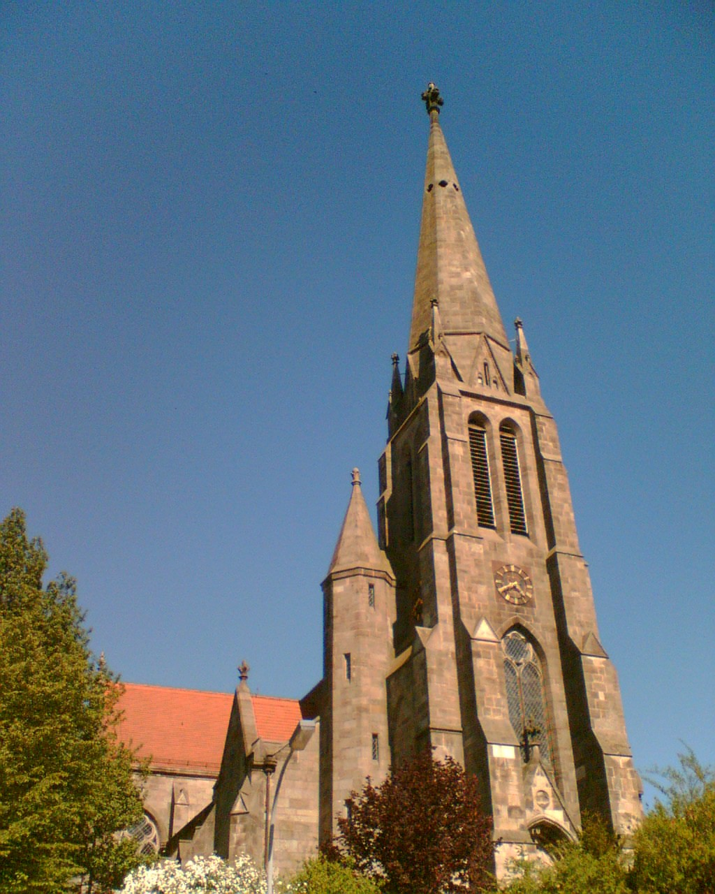 Saint Martin church in Markoldendorf, Germany